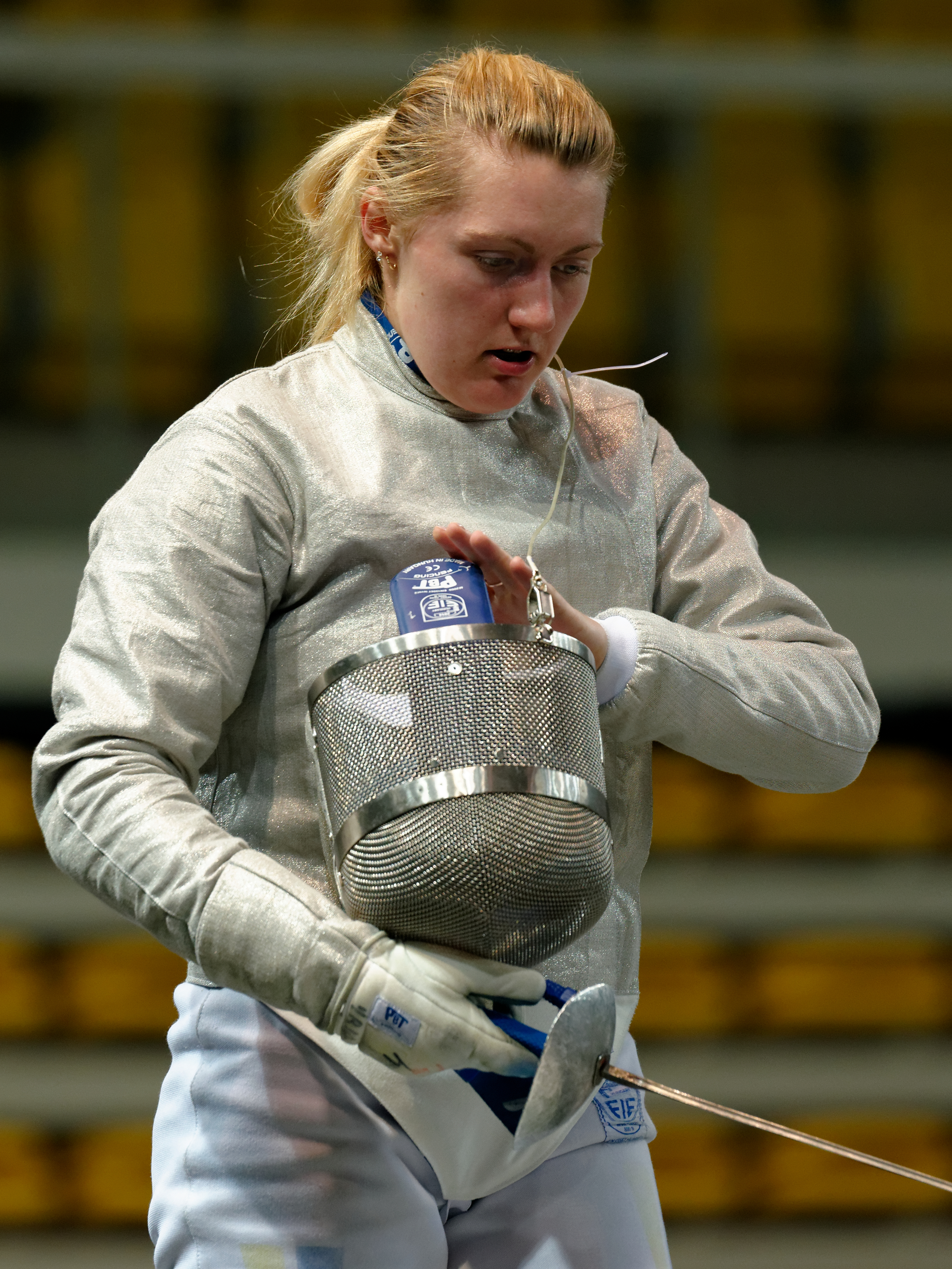 Olena Voronina of Ukraine during their match for the 3rd place against Hungary in the women's team sabre event at the European Fencing Championships at Rhénus Sport in Strasbourg on 13 June 2014.